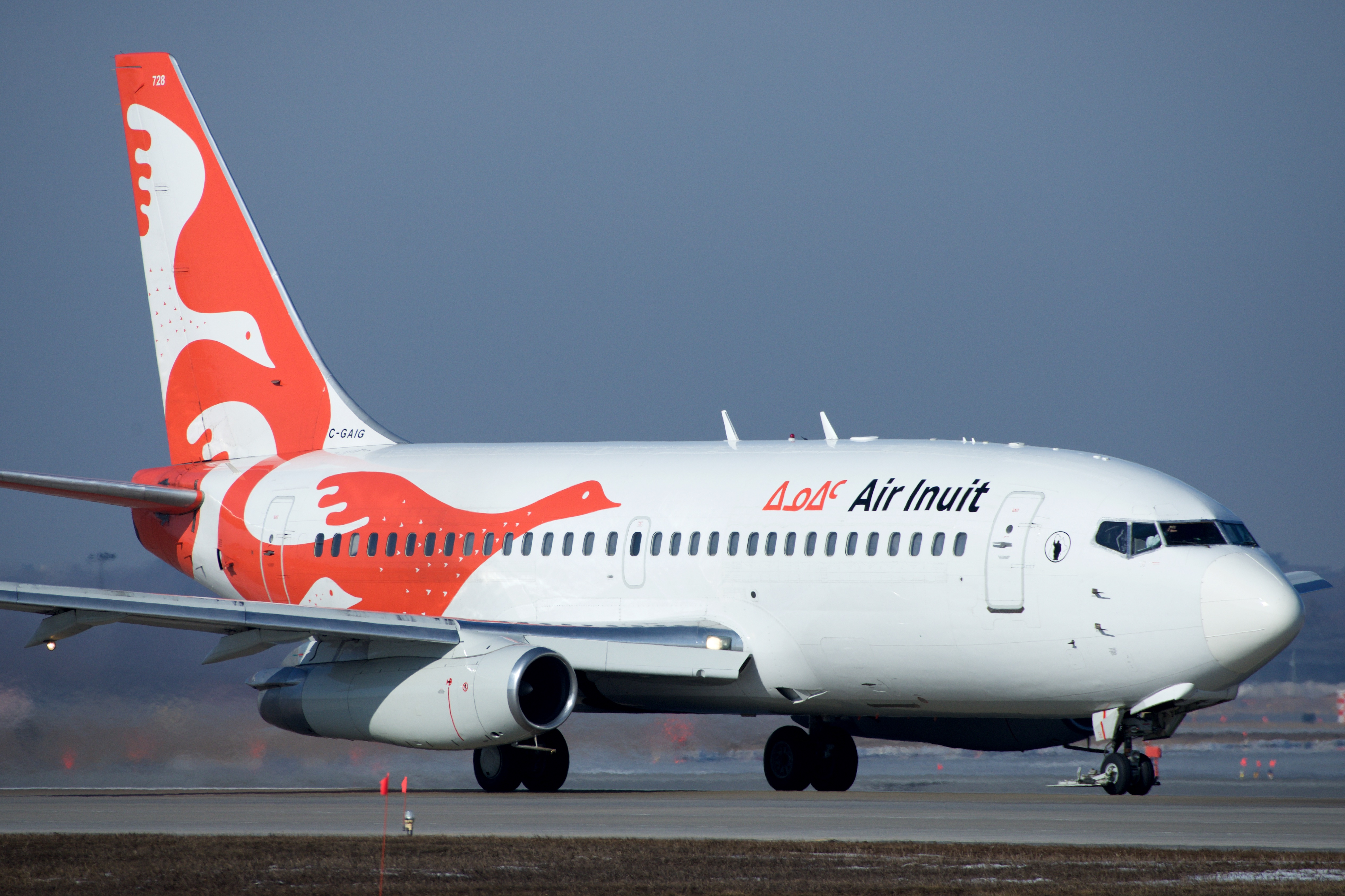 Departure, YUL.